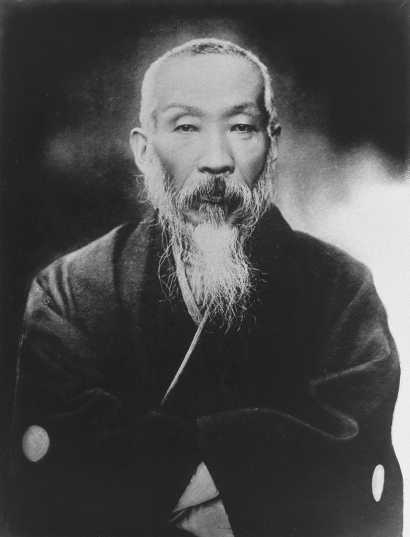 Portrait of Sugiura Jugo (杉浦重剛, 1855 – 1924)